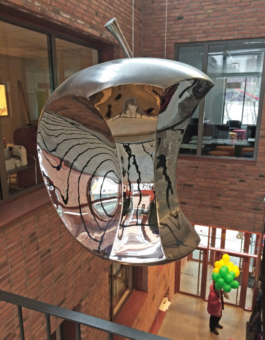 Faling Apple 2014